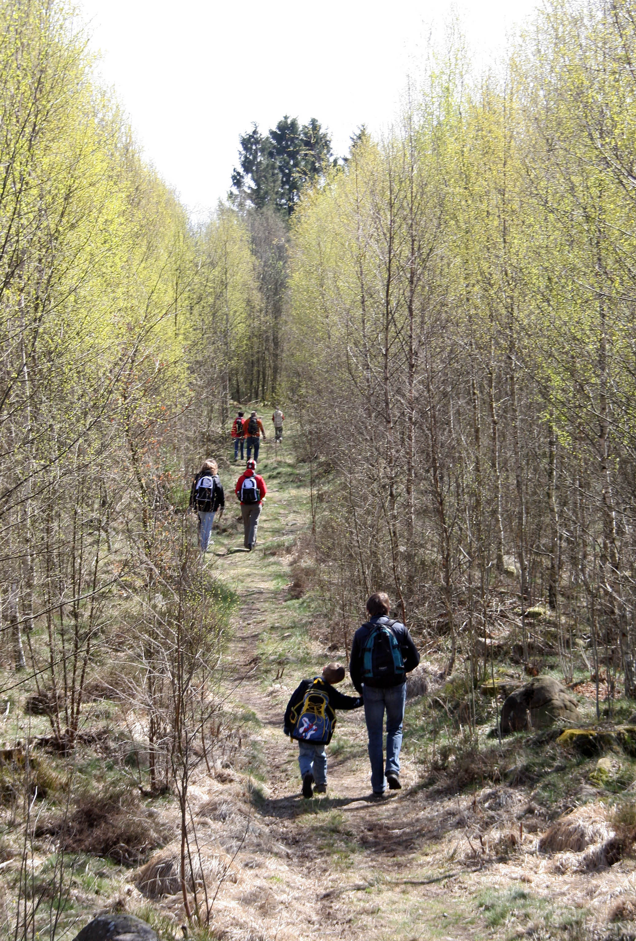 Hiking in Klåveröd recreational area in Scania, Sweden.